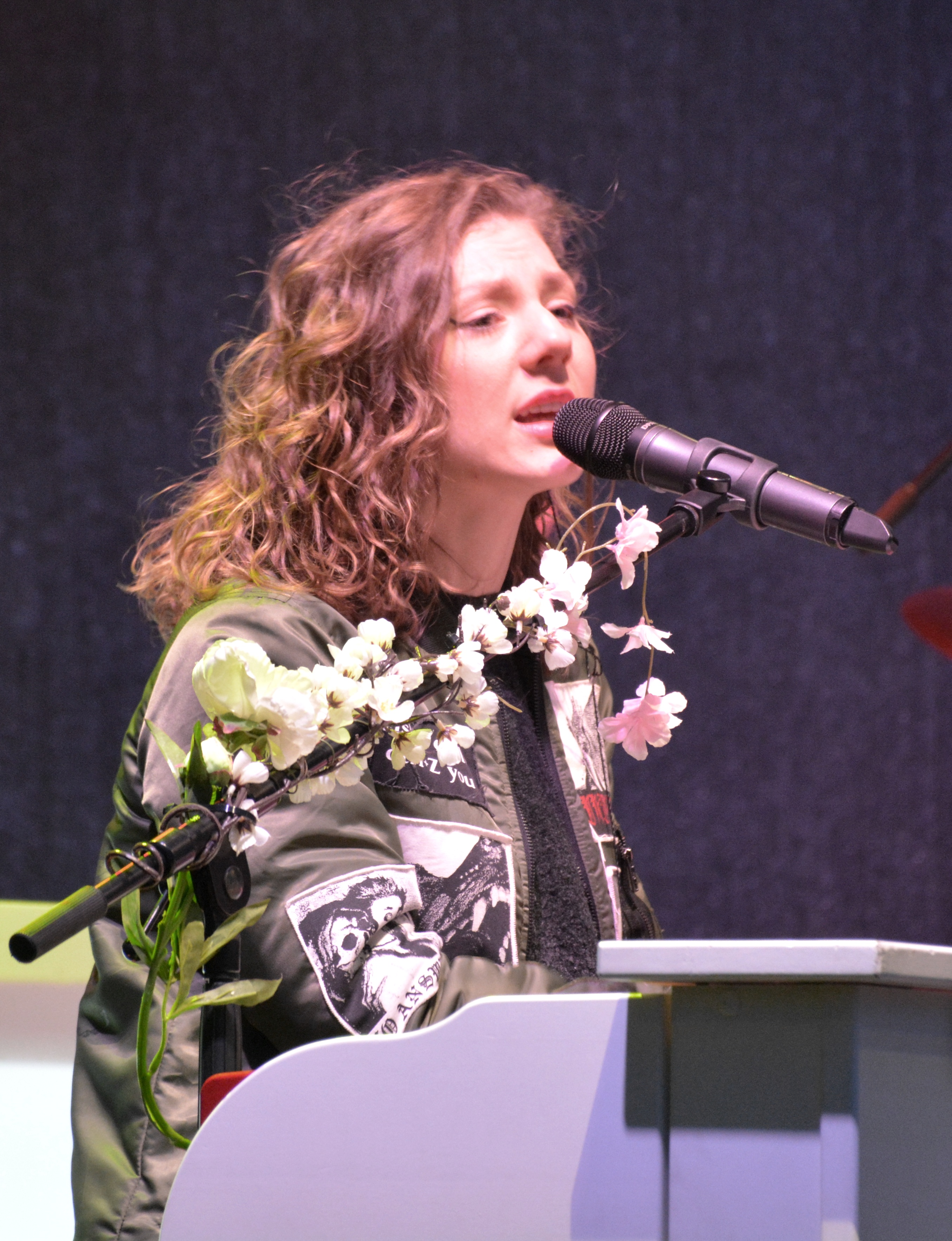 Lenny, Czech vocalist